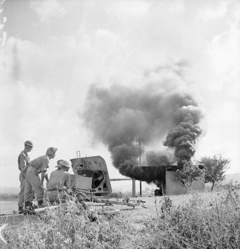 The Campaign in Syria 1941 A 2pdr anti-tank gun in action during the advance into Syria, 13 June 1941.